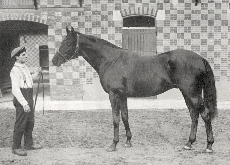 Fitz Herbert in 1913 when retired to Haras de La Saussaye in France.